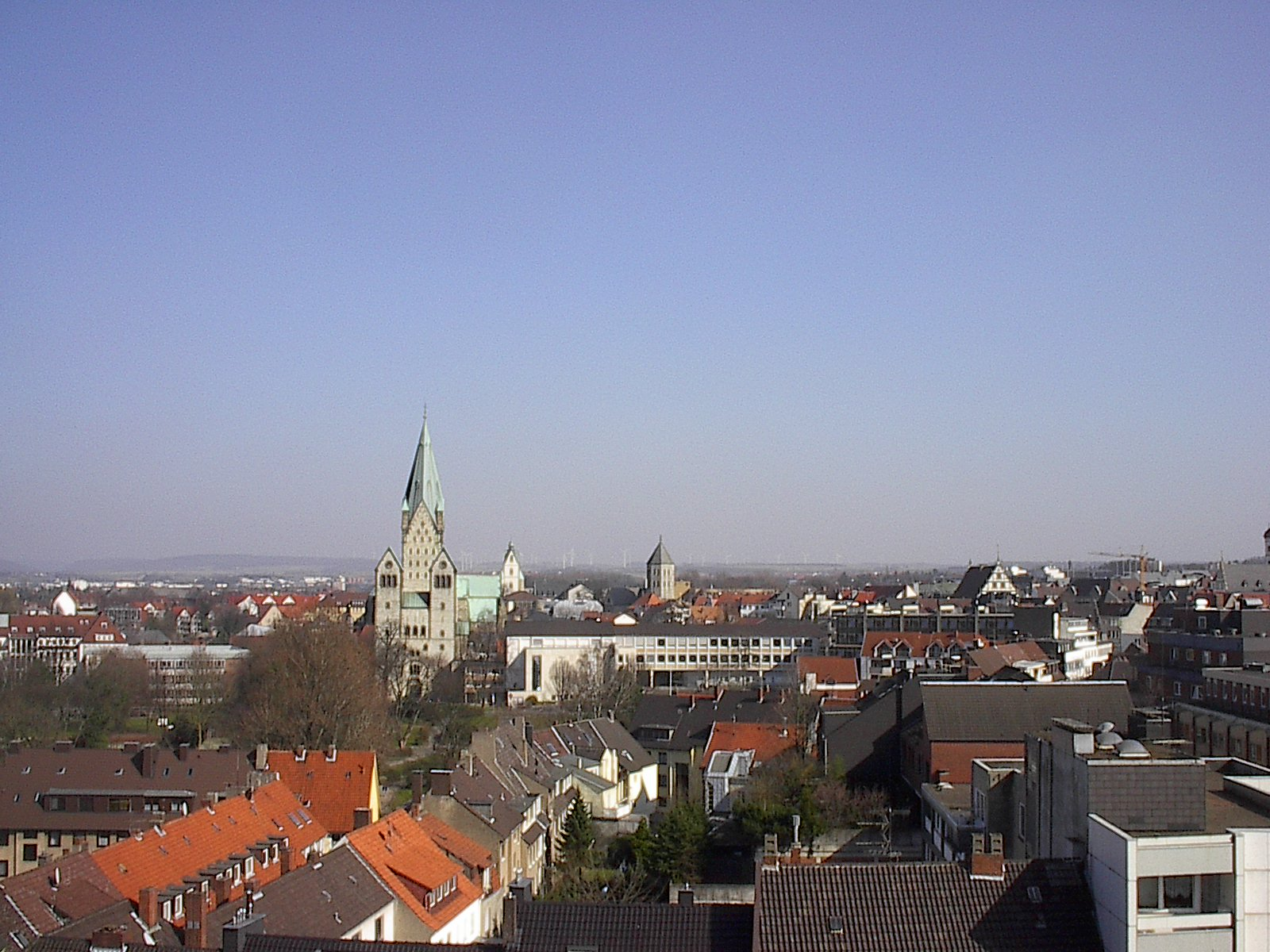 View from west to the centrum of Paderborn and the Paderborn Cathedral from the Best Western Arosa Hotel; electricity-generating windmills on the horizon